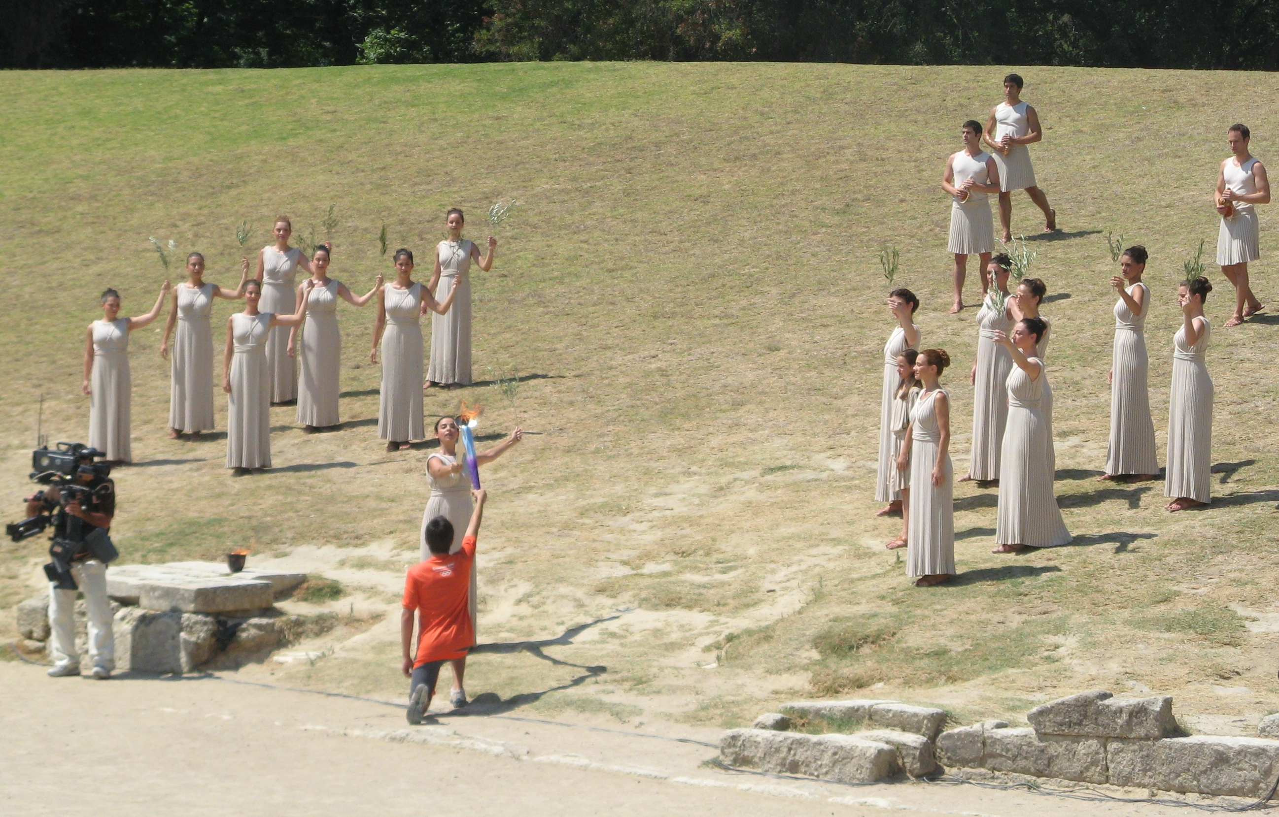 Ignition of the torch for the torch-relay at the olympic torch ignition ceremony for the 2010 Summer Youth Olympics; Olympia, Greece